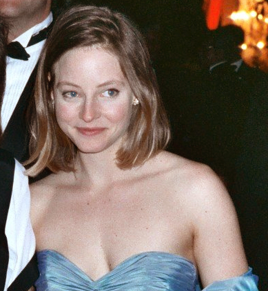 Jodie Foster at 61st Academy Awards - Governor's Ball